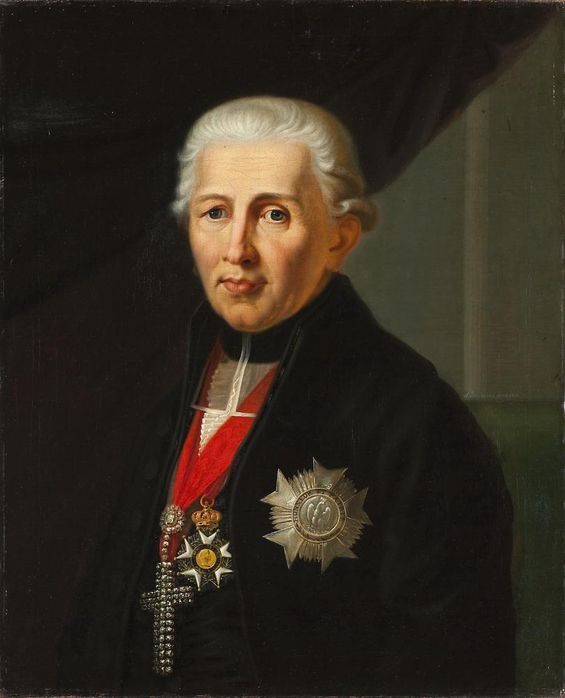 Portrait of Karl Theodor von Dalberg Archbishop of Mainz, Arch-Chancellor of the Holy Roman Empire, Prince of Regensburg, Prince-Primate of the Confederation of the Rhine and Grand Duke of Frankfurt.